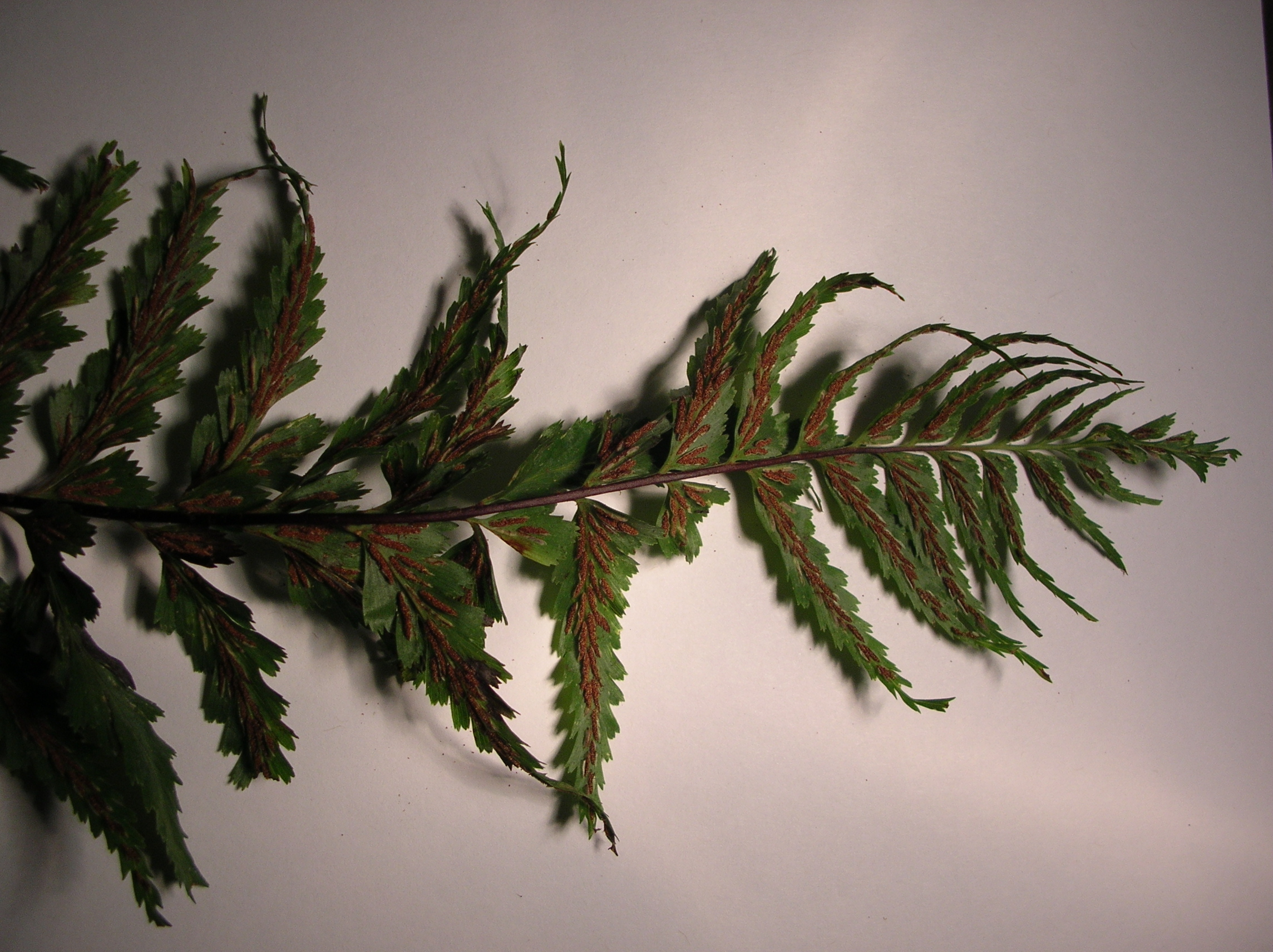 Asplenium polyodon (pinnae and sori). Location: Maui, Makawao Forest Reserve